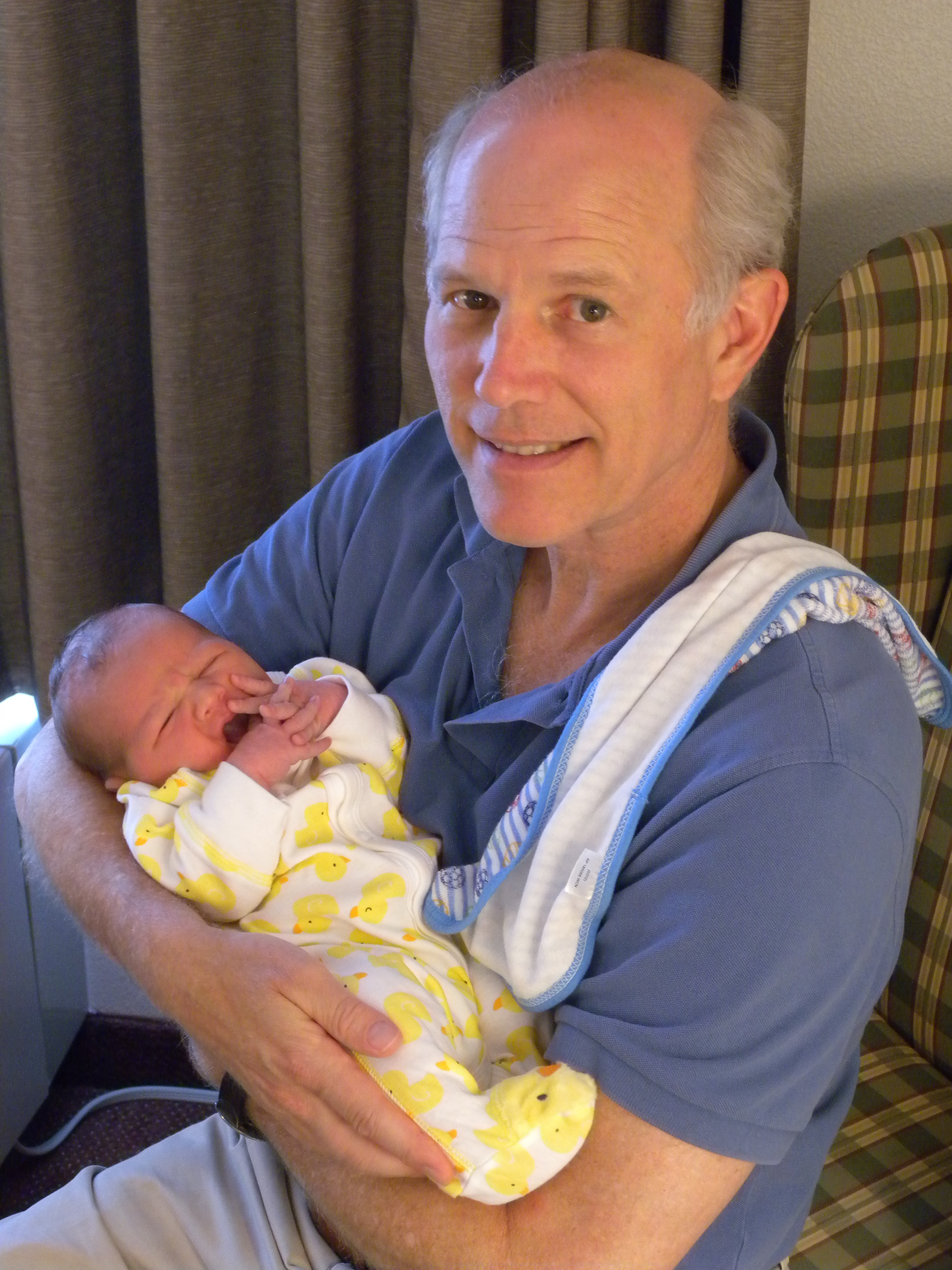 American author, painter, and editor Barnaby Conrad III holding his infant son, Jack.